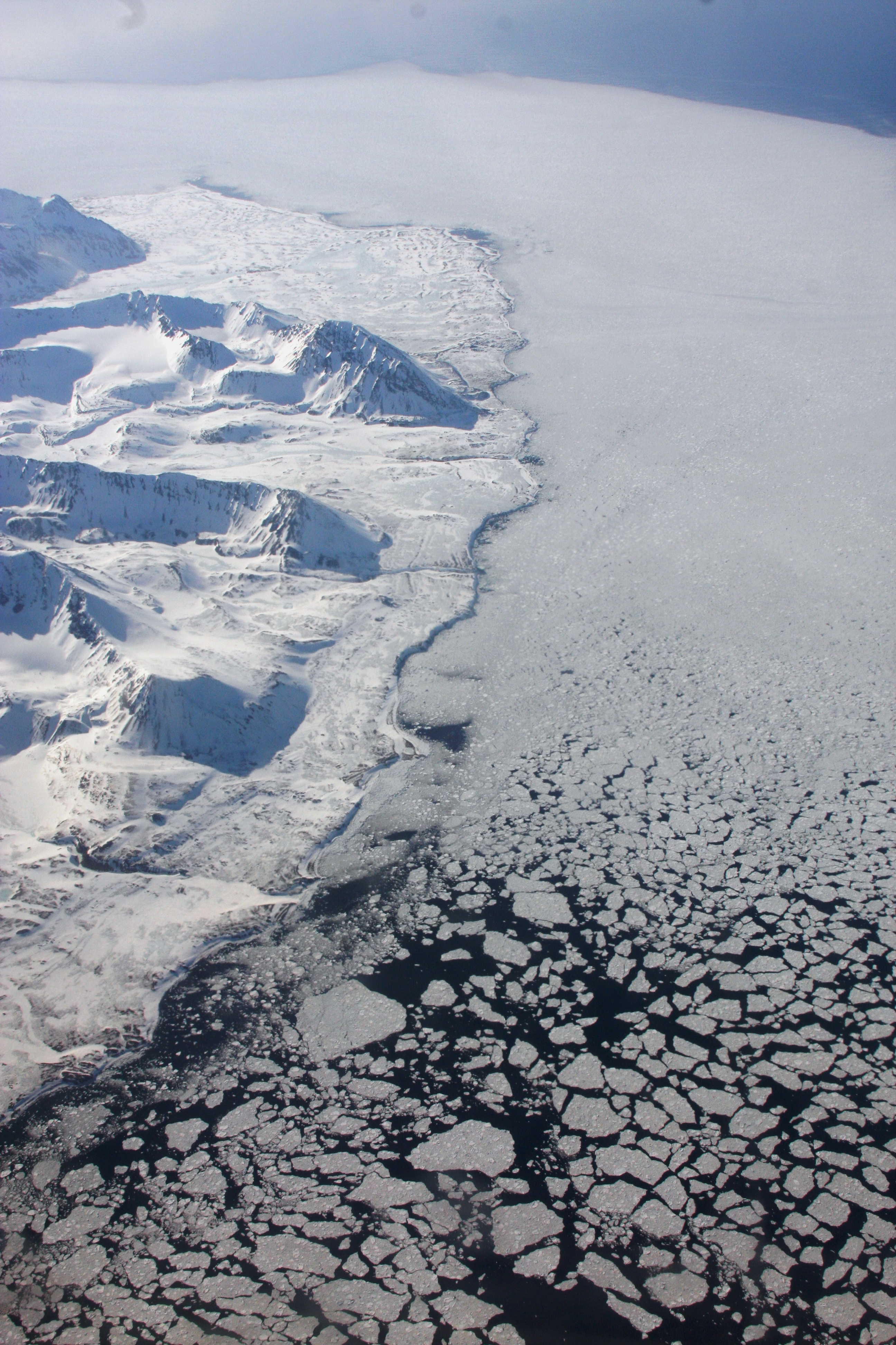 Kapp Lyell, northwesternmost Wedel Jarlsberg Land, with Bellsund. Svalbard.